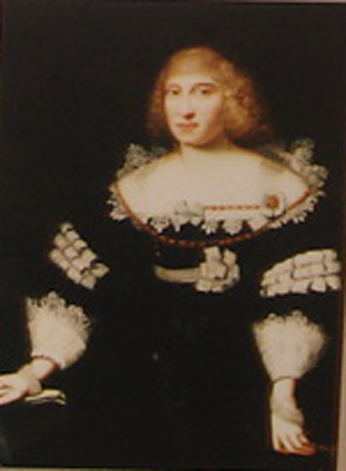 Juliane Cirksena, unsigned portrait. See this article on the image's restoration for further information (in German).